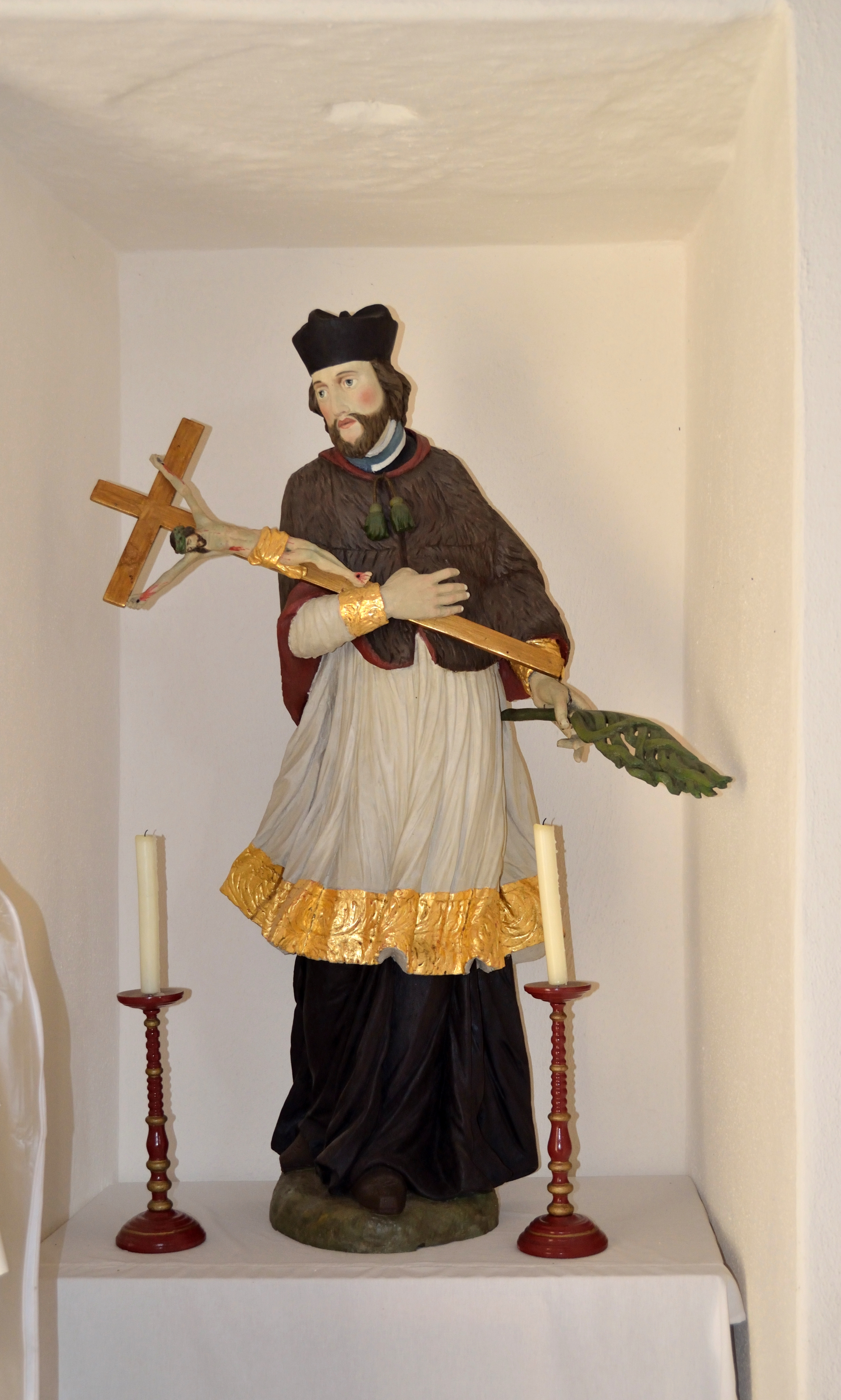 The subsididary church St. Laurentius in Haselbach, municipality of Weißenkirchen an der Perschling, Lower Austria is protected as a cultural heritage monument. Statue of John of Nepomuk inside.